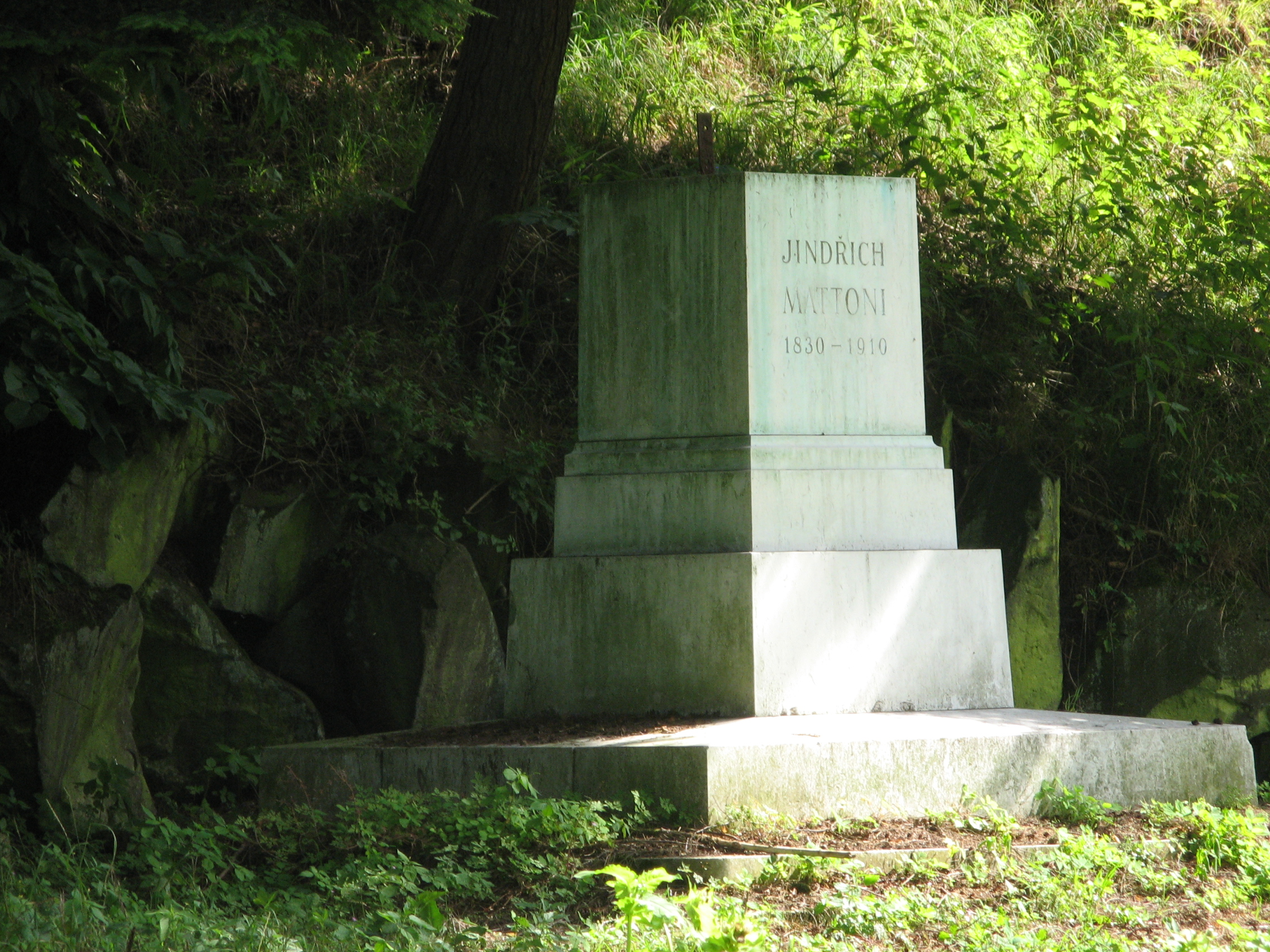 Jindřich Mattoni memorial (1830 - 1910) in the village of Kyselka, Karlovy Vary District, Czech Republic